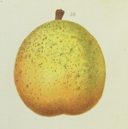 Buffum (poire américaine).